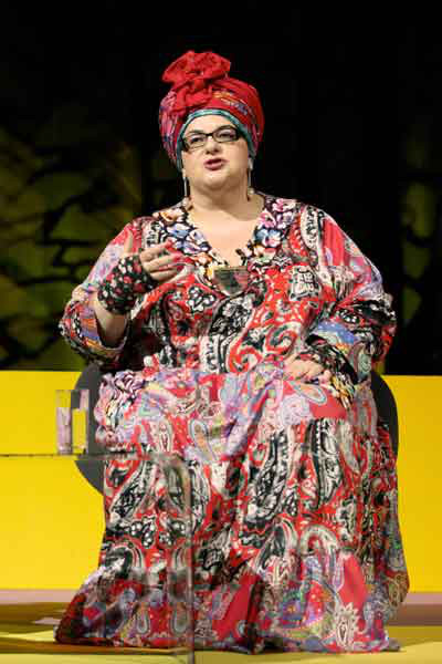 Crop of Camila Batmanghelidjh from photo at the NHS Confederation annual conference & exhibition 2011.